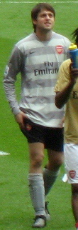 Łukasz Fabiański. Image cropped from original at flickr.